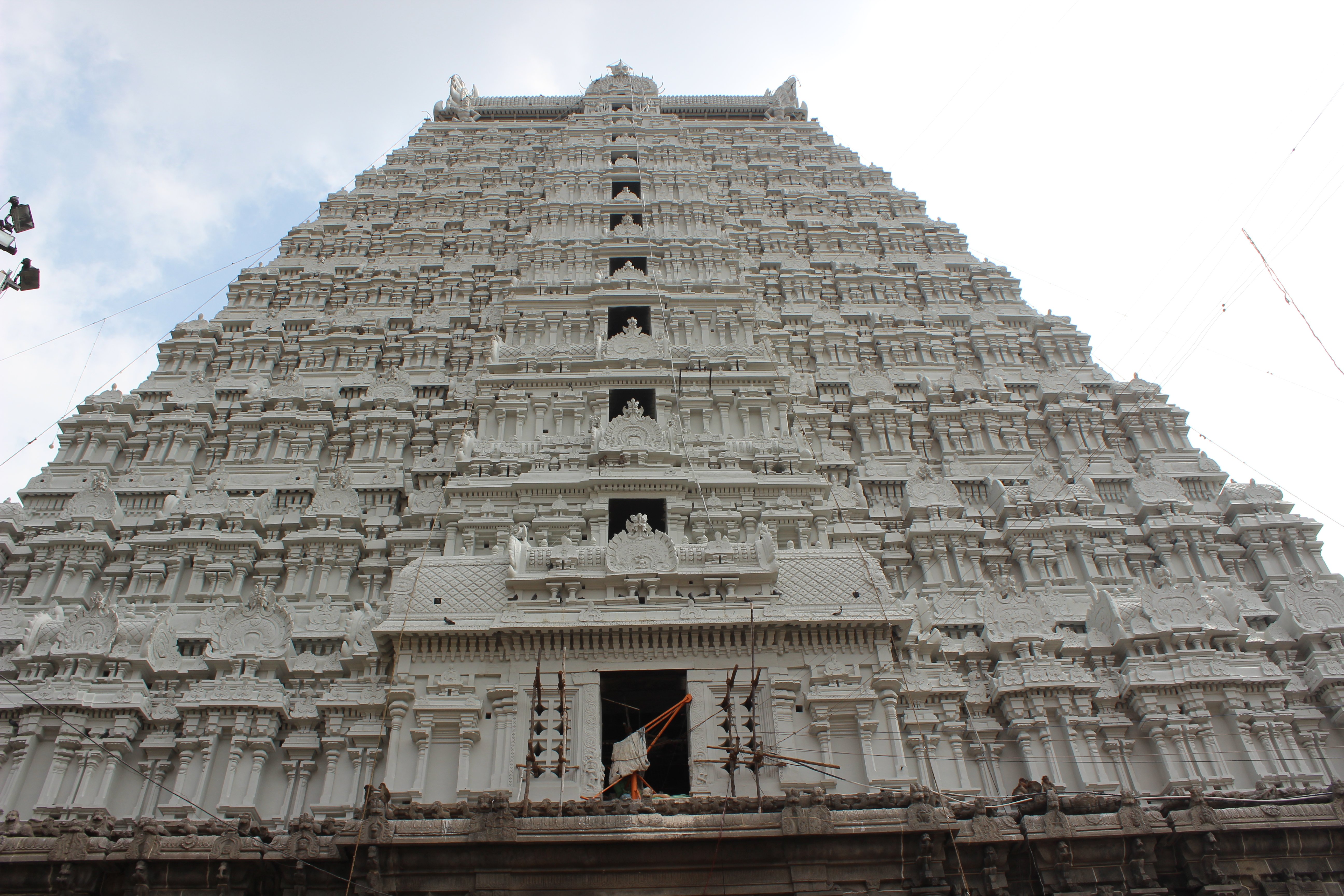 Thiruvannamalai Annamalaiyar Temple Raja Gopuram